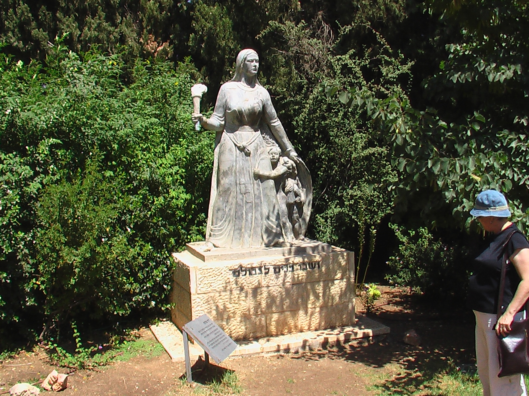 "Rachel our Mother" (1953) by David Polus, in kibbutz Ramat Rachel